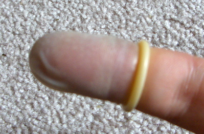 Picture of finger cot, created by myself (Windchaser), released under Creative Commons CC-By-SA-2.5